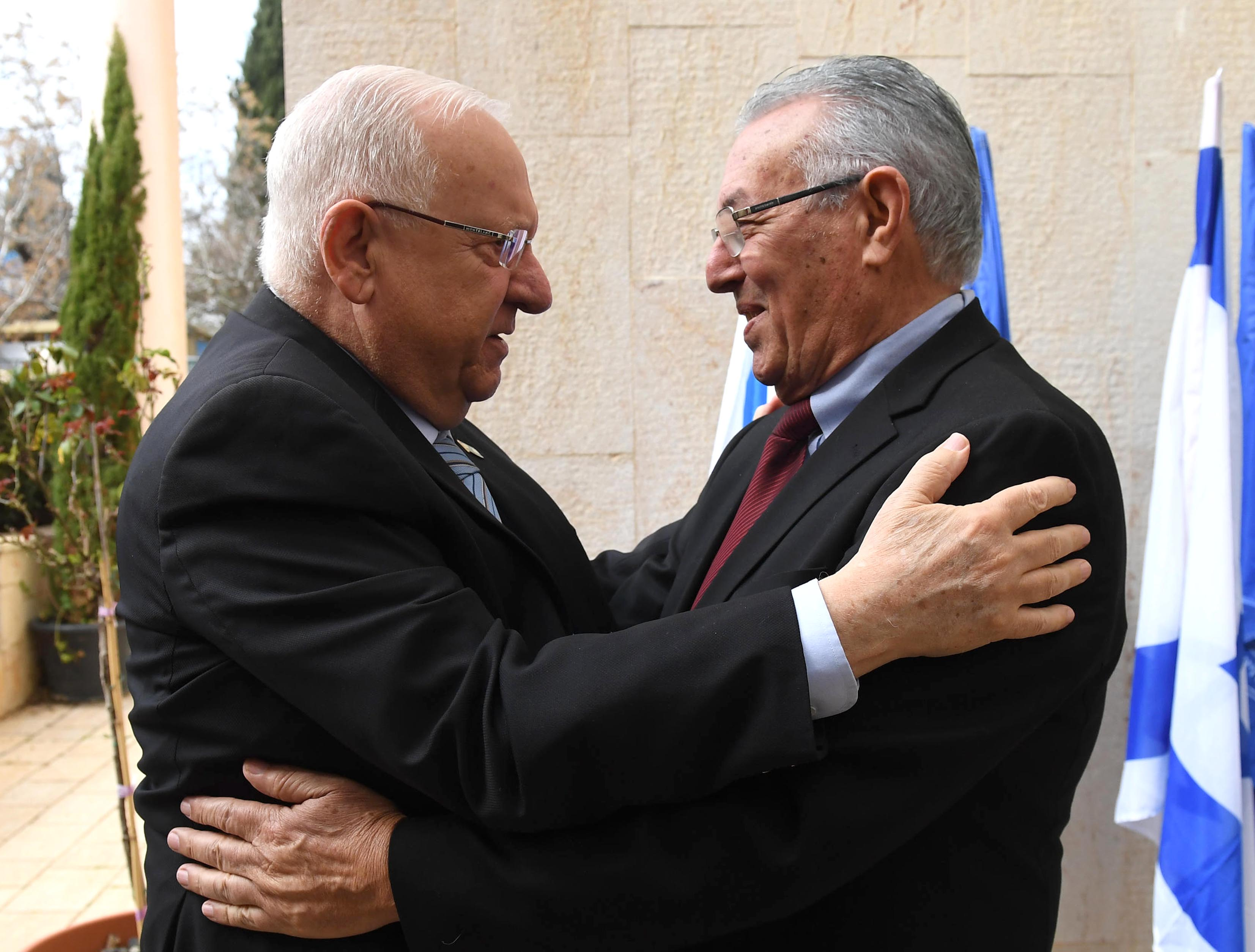 In honor of Israel 70th Independence, the office of the President of Israel, Reuven Rivlin, traveled for the first time from Jerusalem to Maalot-Tarshiha and for a full day the President held his meetings in the city. Tuesday, February 20, 2018. Photo Credit: Mark Neiman / GPO.